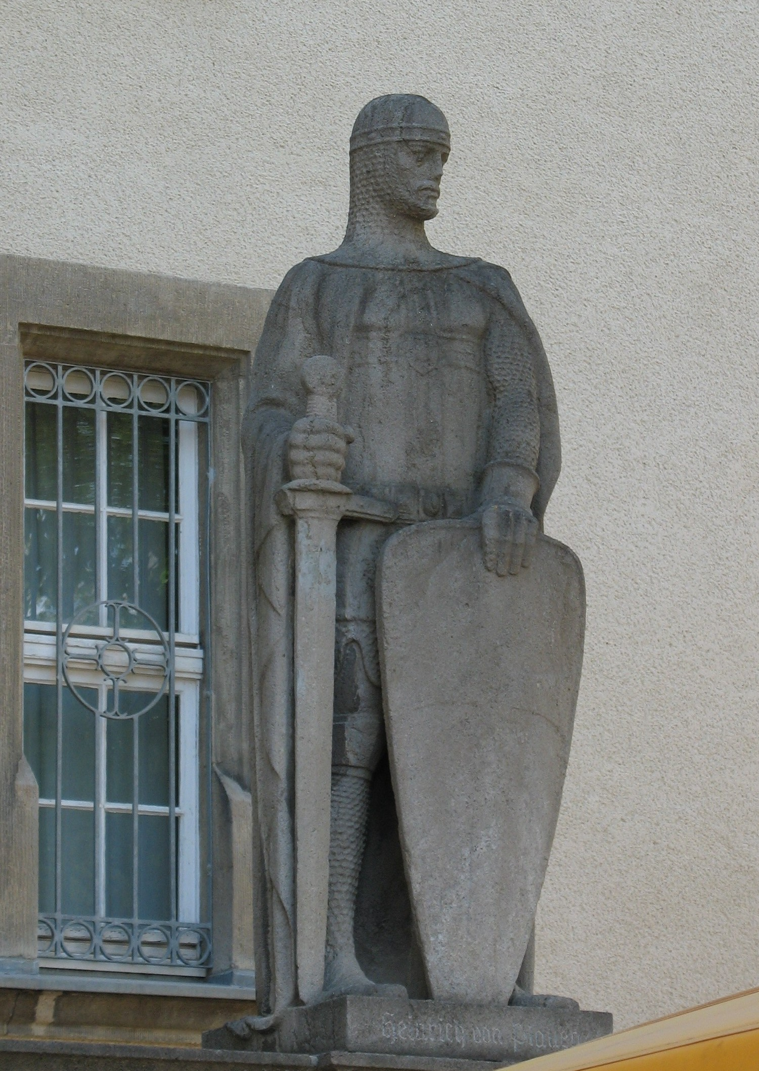 Statue Heinrich des Älteren von Plauen in front of the Plauener townhall by Selmar Werner in 1923.